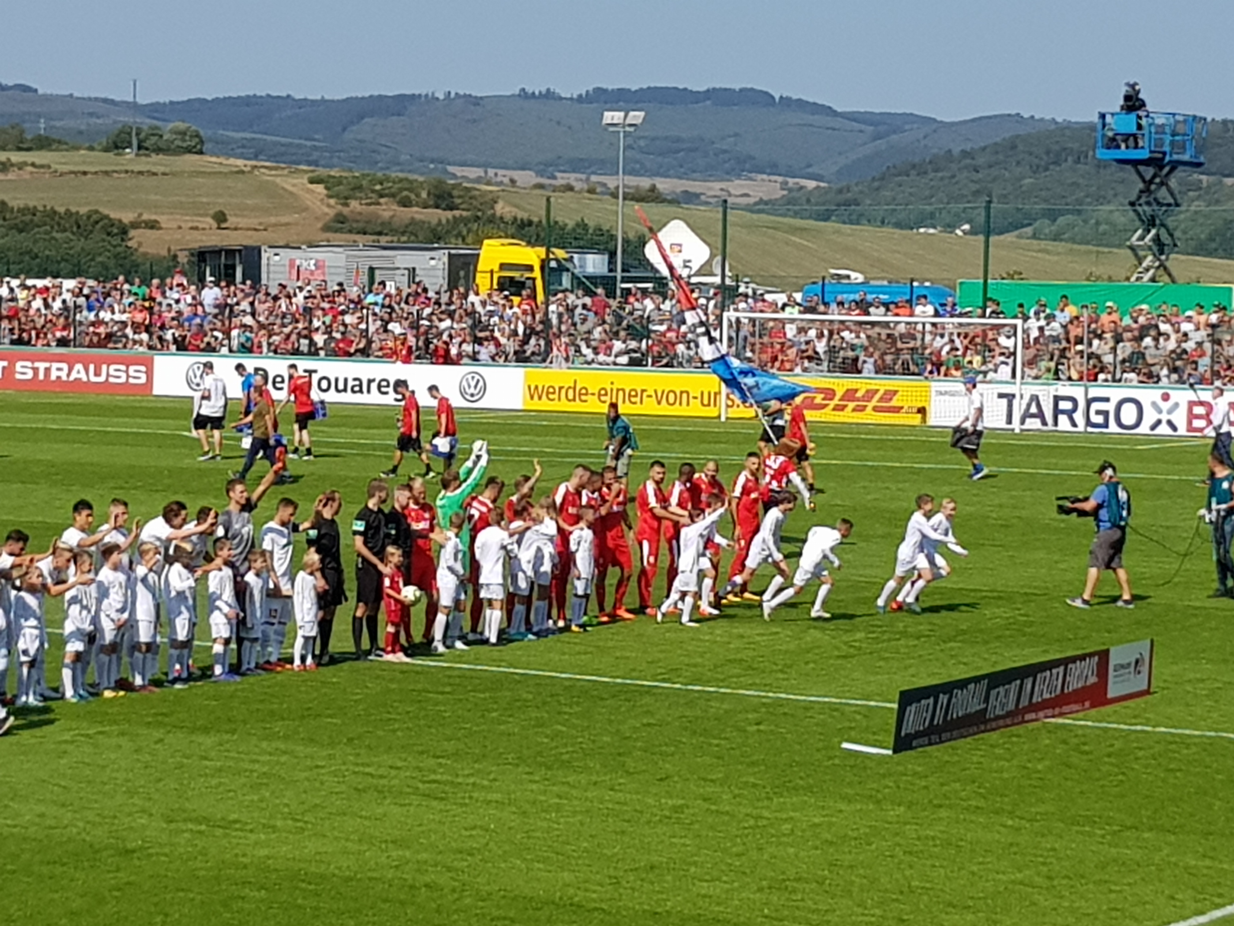 DFB-Pokal-Spiel gegen den FC Augstburg am 19. August 2018